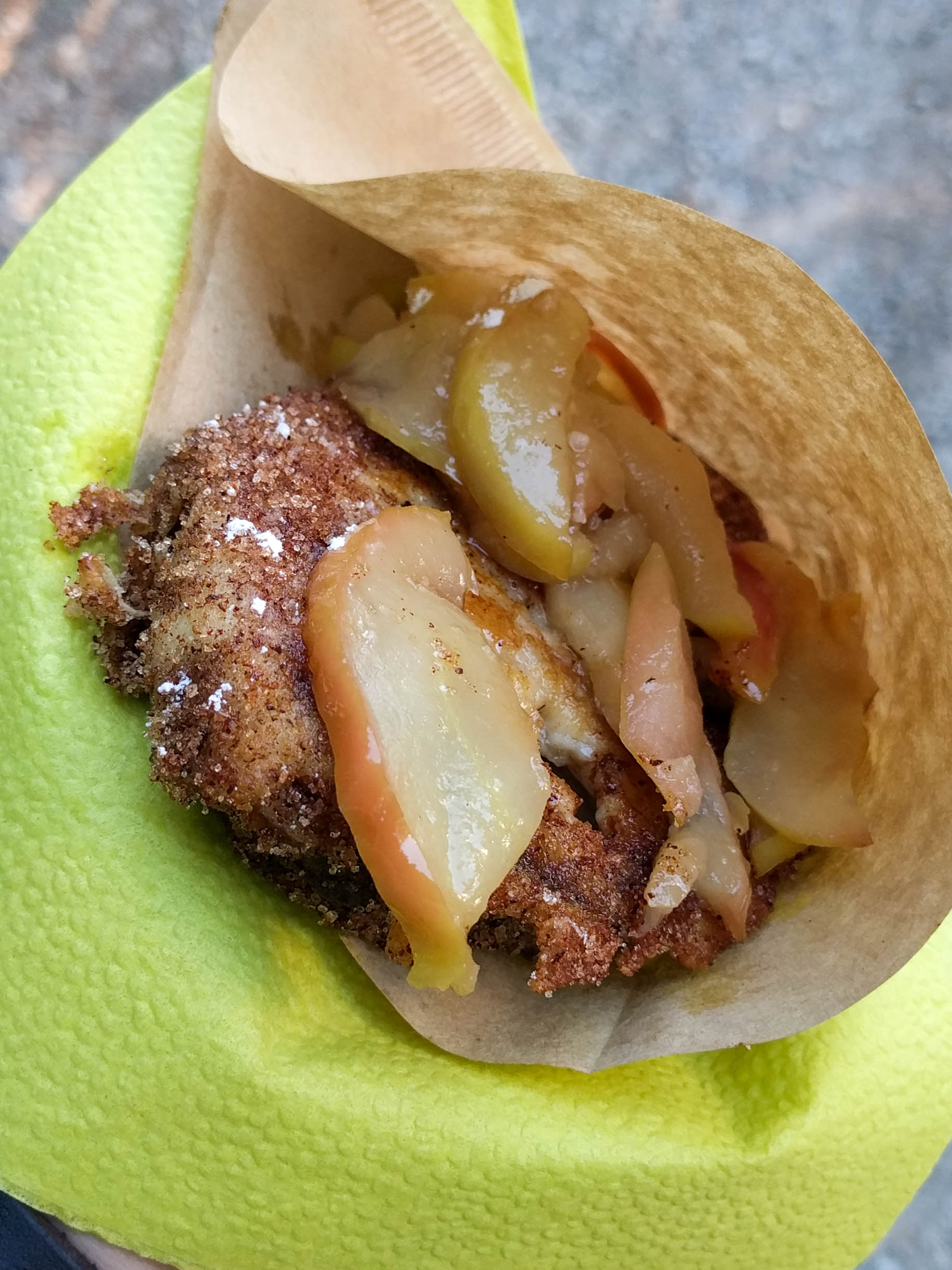 French toast with powdered sugar, cinnamon, fried apples and icing sugar.